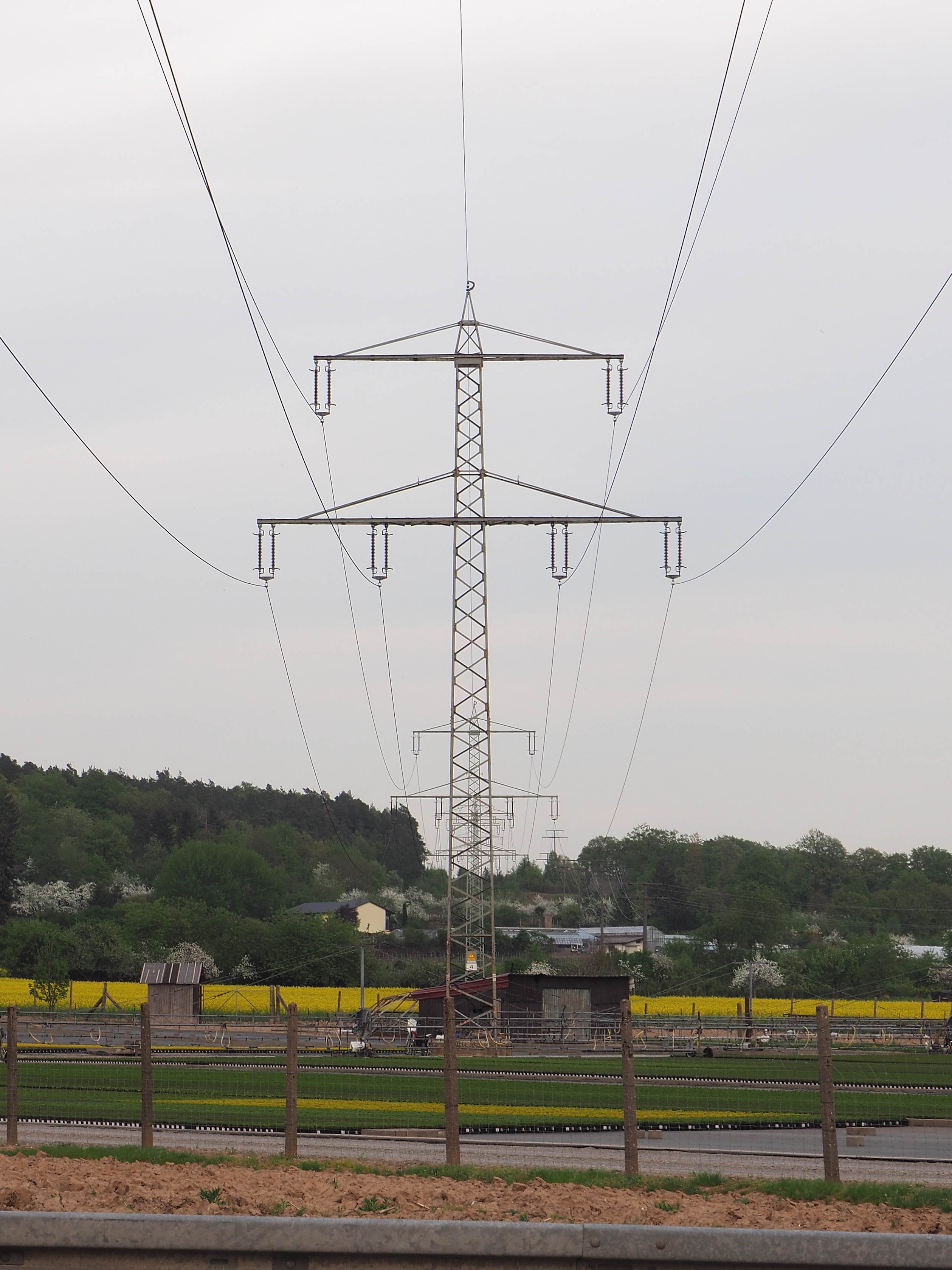 110 kV high-voltage powerline of Bayernwerk in Großheubach near Miltenberg, Germany